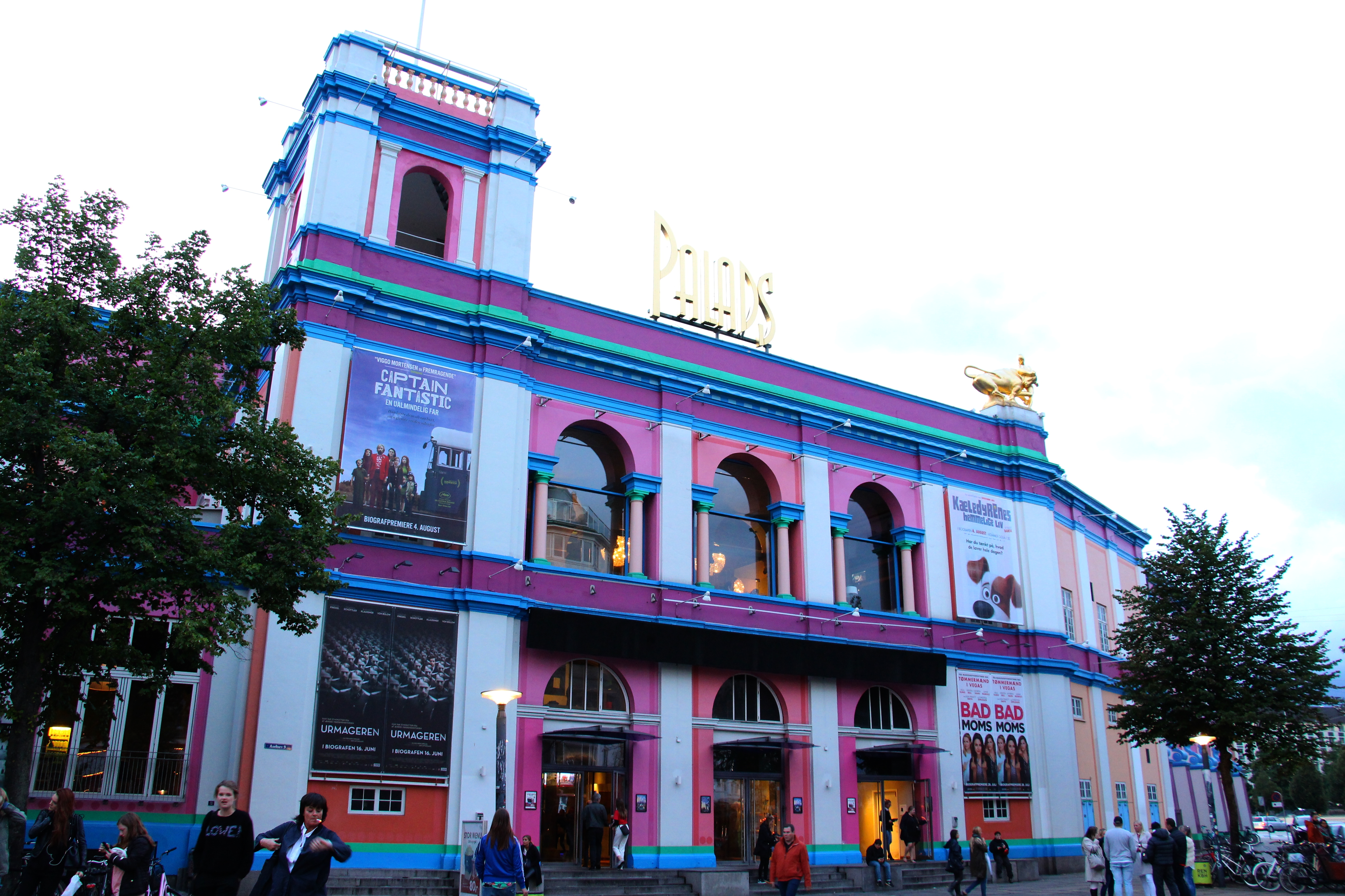 (Indre By) Axeltorv Palads Teatret is a cinema operated by Nordisk Film. It offers a wide selection of films in its 17 auditoriums, more than in any other Danish cinema. Arch. Andreas Clemmensen and Johan Nielsen 1917-18. In 1989, the outside of the building was painted in vivid pastel colours by Poul Gernes.